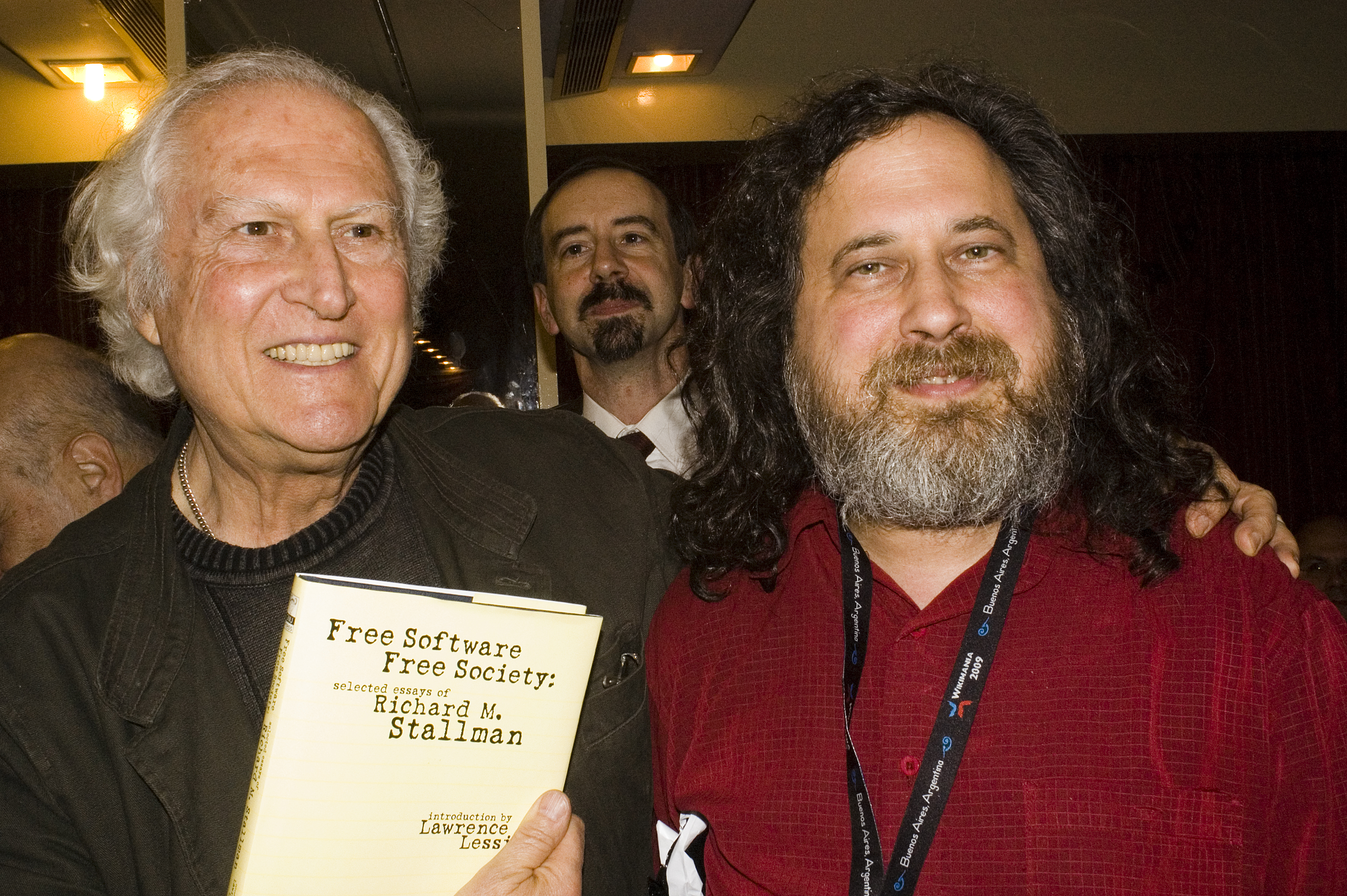 Fernando 'Pino' Solanas and Richard Stallman at Wikimania 2009 Welcome Dinner.